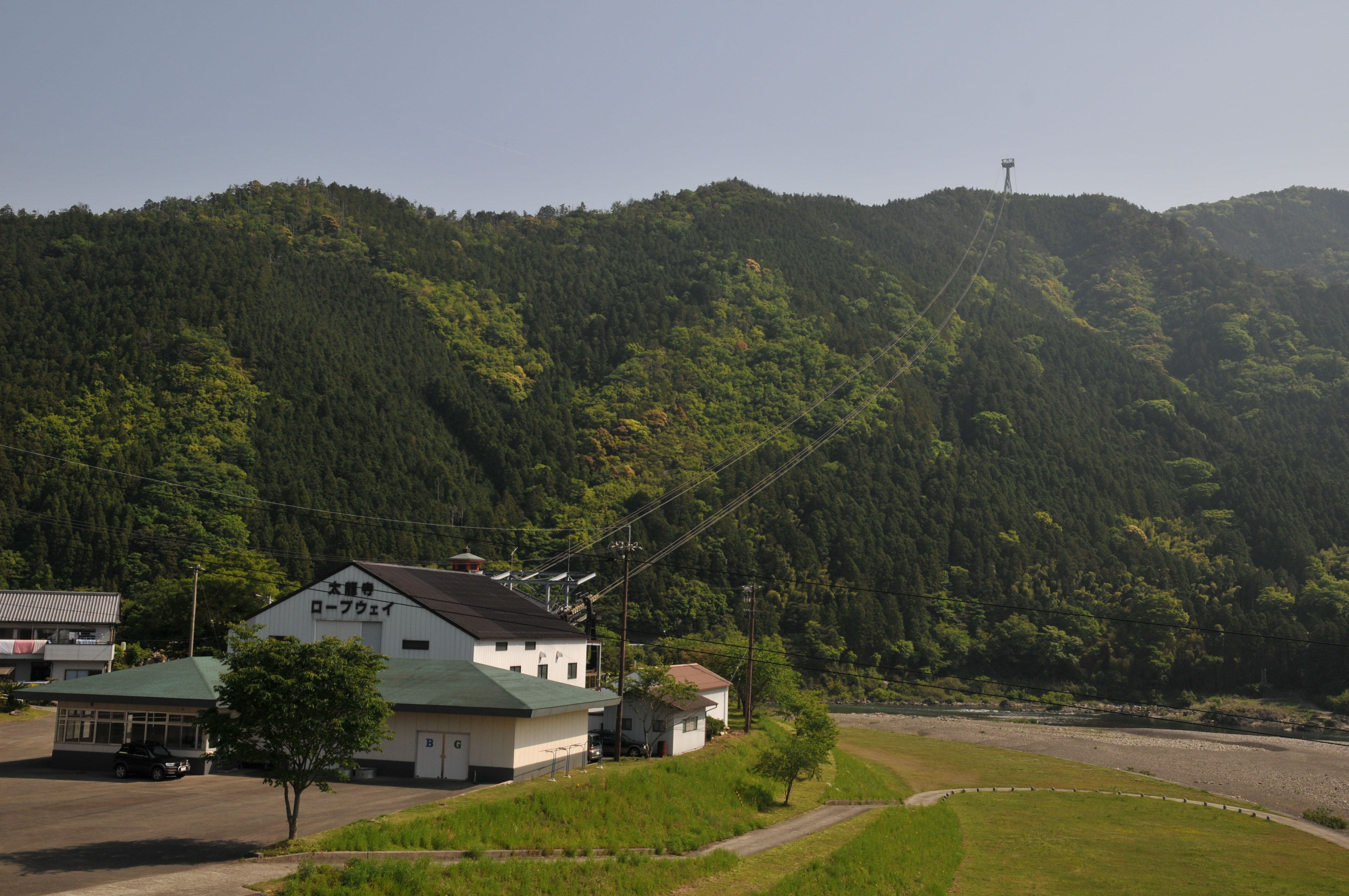 Washinosato station, Tairyuji ropeway